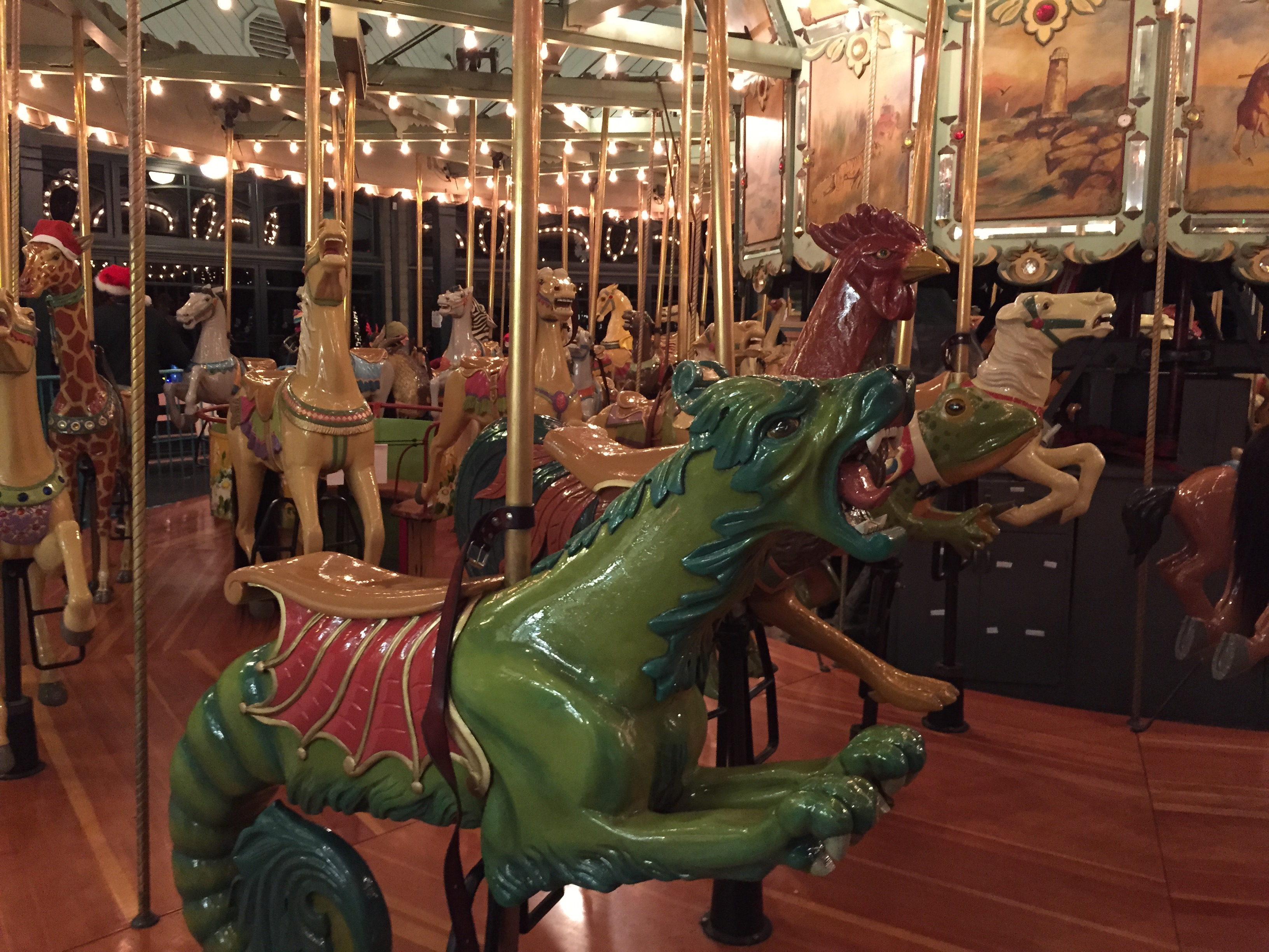 The sea monster figure on the Tilden Park Merry-Go-Round as seen on the evening of December 19, 2015. All the figures were repainted in November 2015.